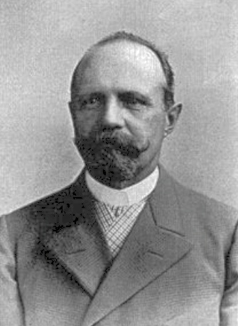 Anton Reichenow (1847 - 1941)